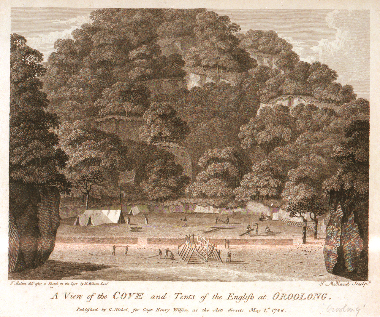 A View of the Cove and Tents of the English at Oroolong Published by G. Nichol, for Capt. Henry Wilson, as the Act directs May 1st 1788 Print